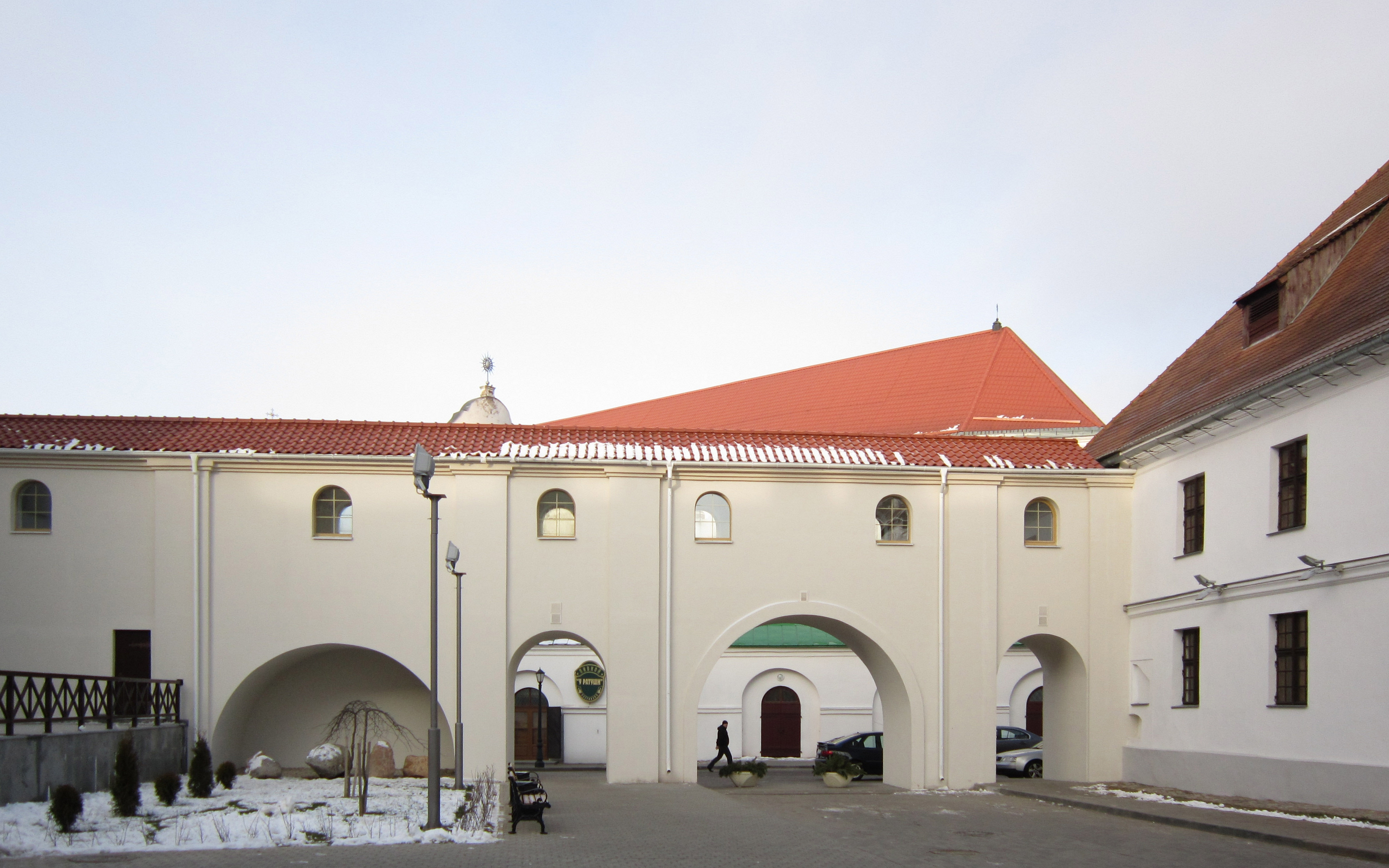 Upper Town in Minsk